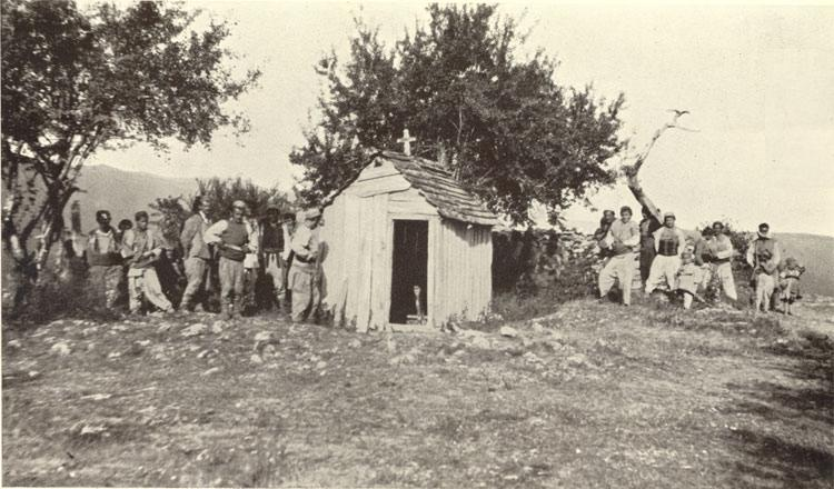 Temporary chapel erected after the burning of their village by the peasants of Lokov 1903.